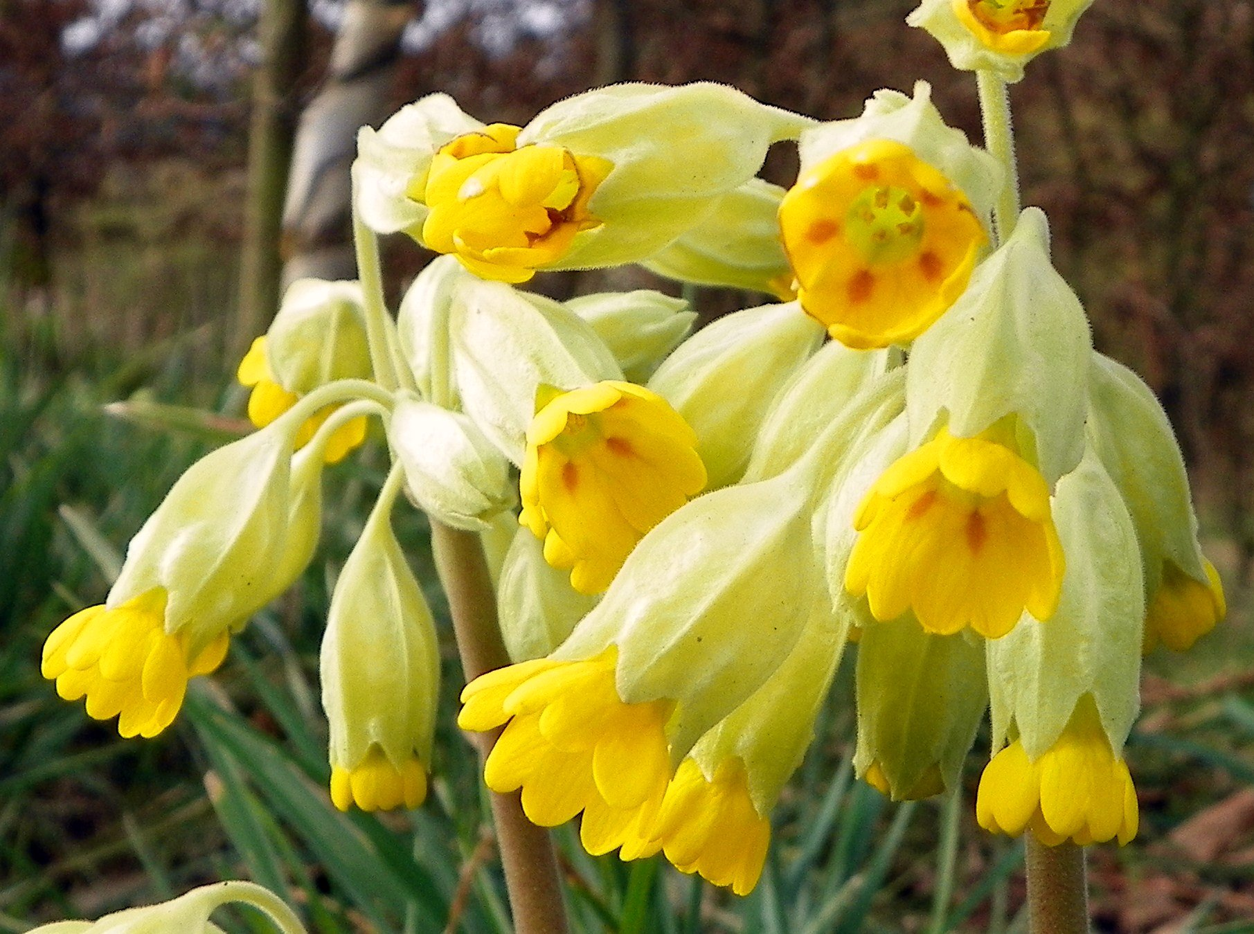 Cowslip (Primula veris), Great Ashby District Park, Stevenage, Hertfordshire, 27 March 2011